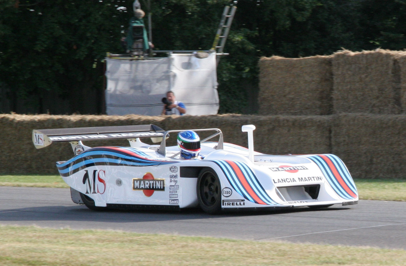 Lancia LC1 at the 2006 Goodwood Festival of Speed